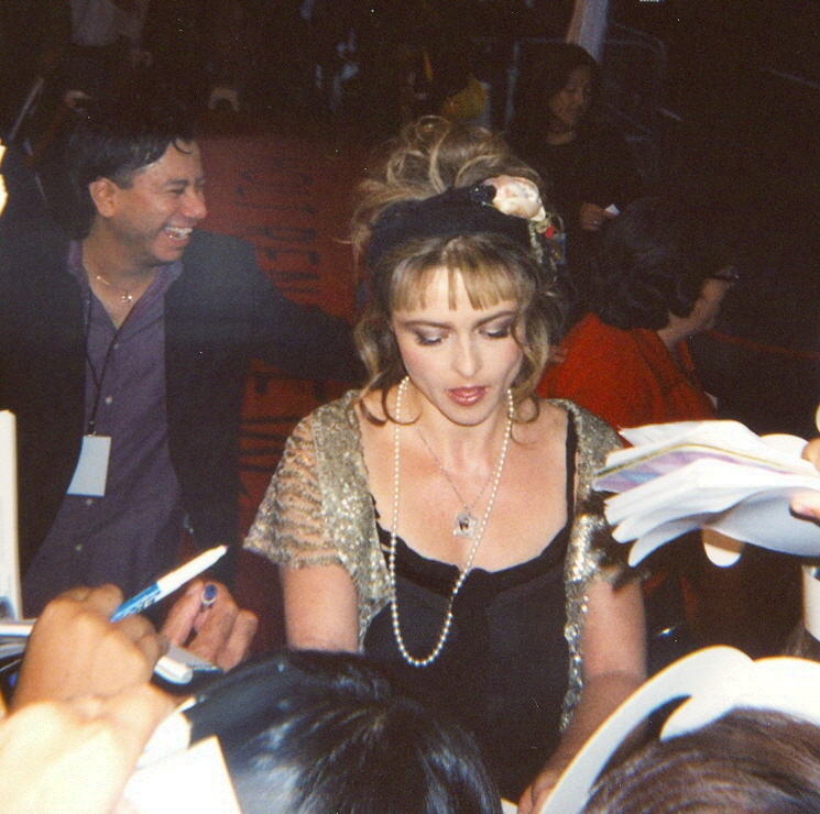 Helena Bonham Carter at the 2005 Toronto International Film Festival promoting Curse of the Wererabbit.